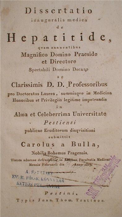 Title pages of Dissertatio... (Hungarian doctor Bulla Károly, 1819)